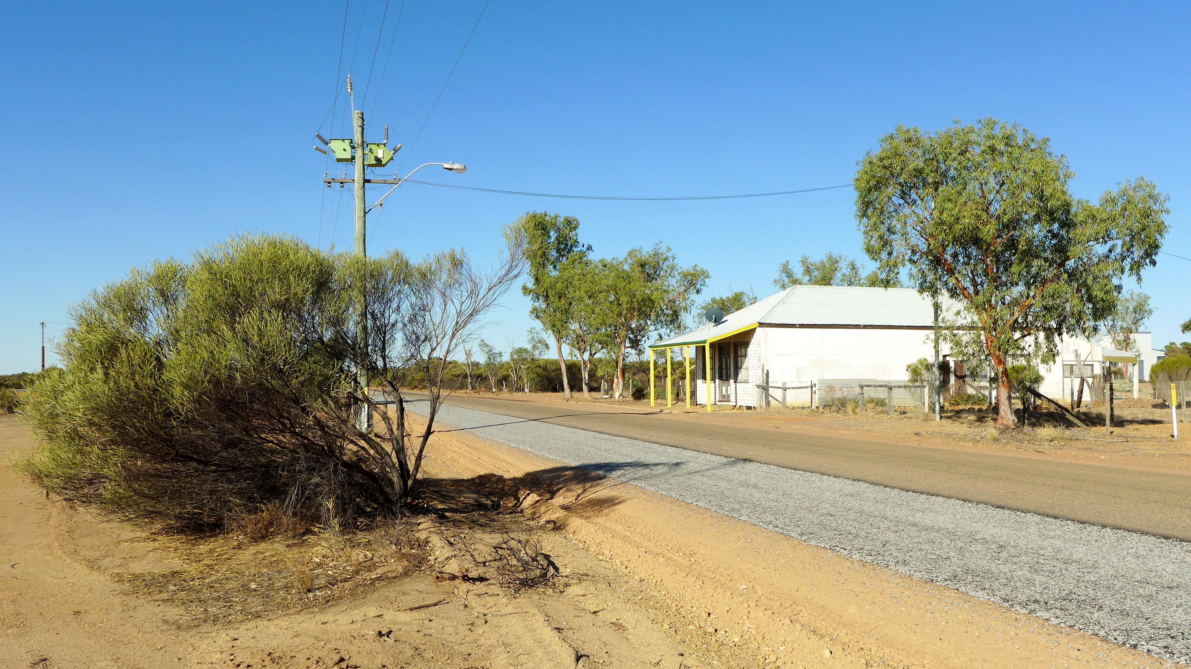 View of the Dowerin-Kalannie Road, Burakin, Western Australia. The building in the image is the former general store.